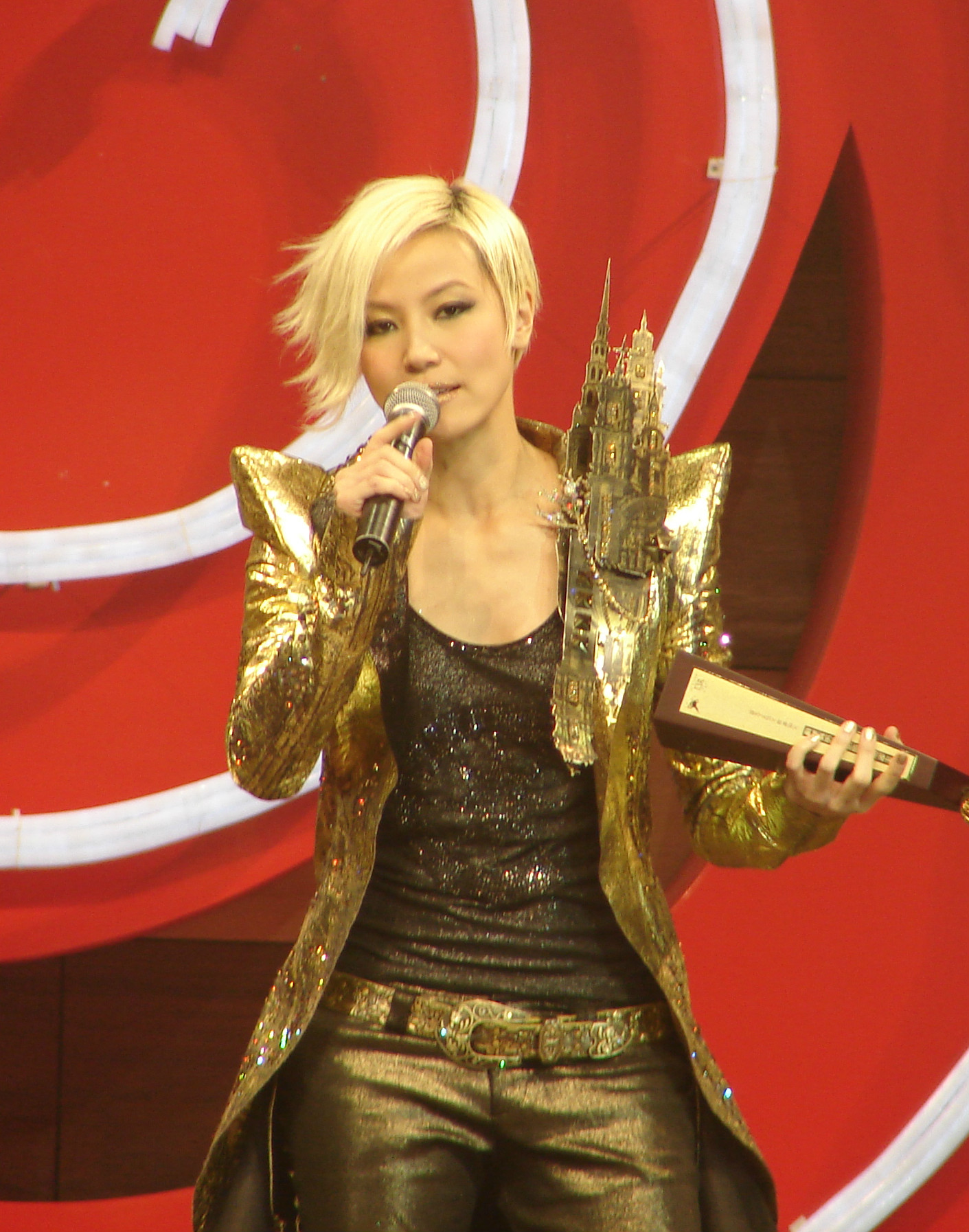 Denise Ho 何韻詩@叱o宅903 - 2006 (01 January 2007)